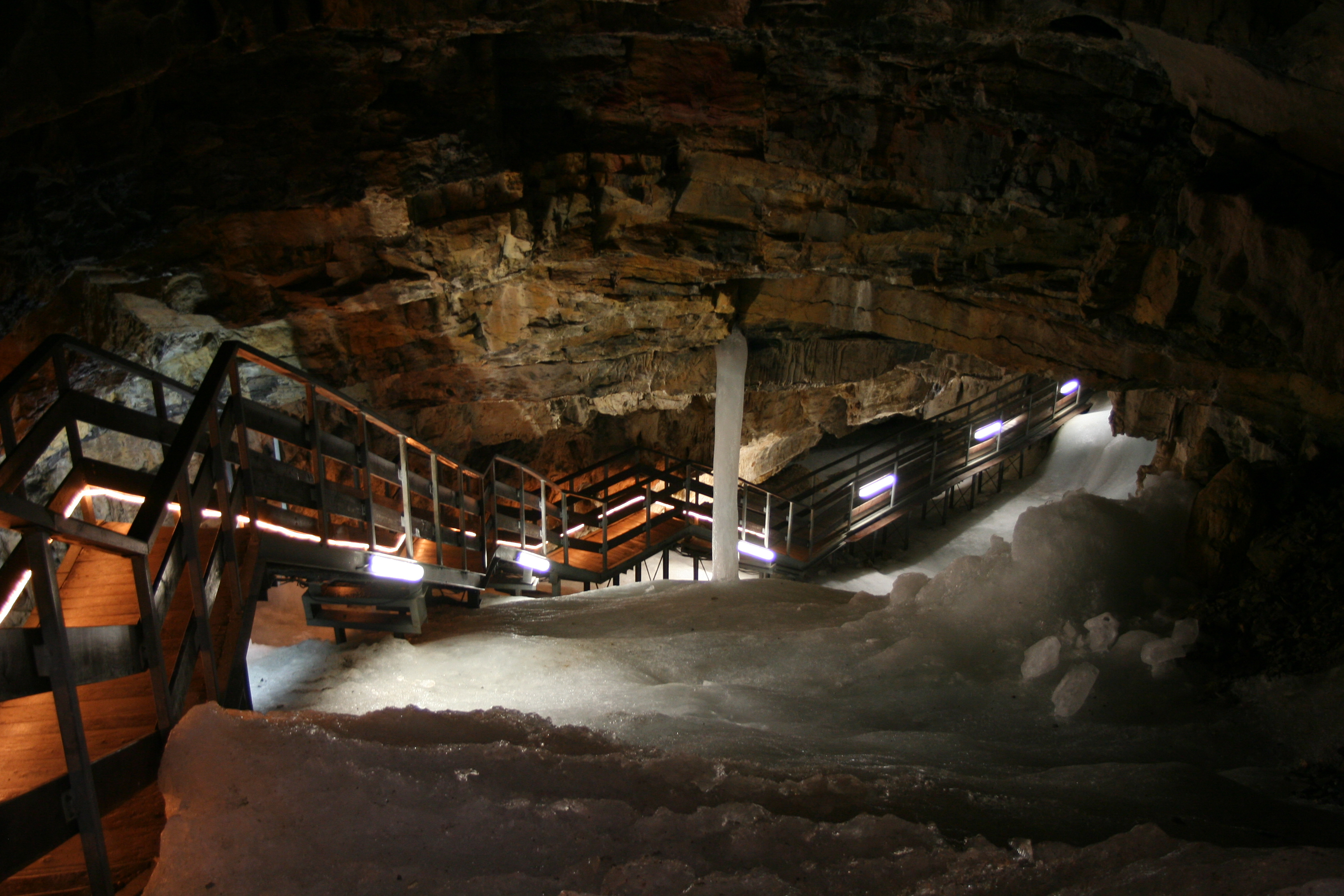 Demänová Ice Cave (Demänovská ľadová jaskyňa), Slovakia. Taking this photo was made possible through the financial support of Wikimedia Polska.